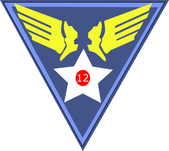 12th Air Force, USAAF Patch (World War II)